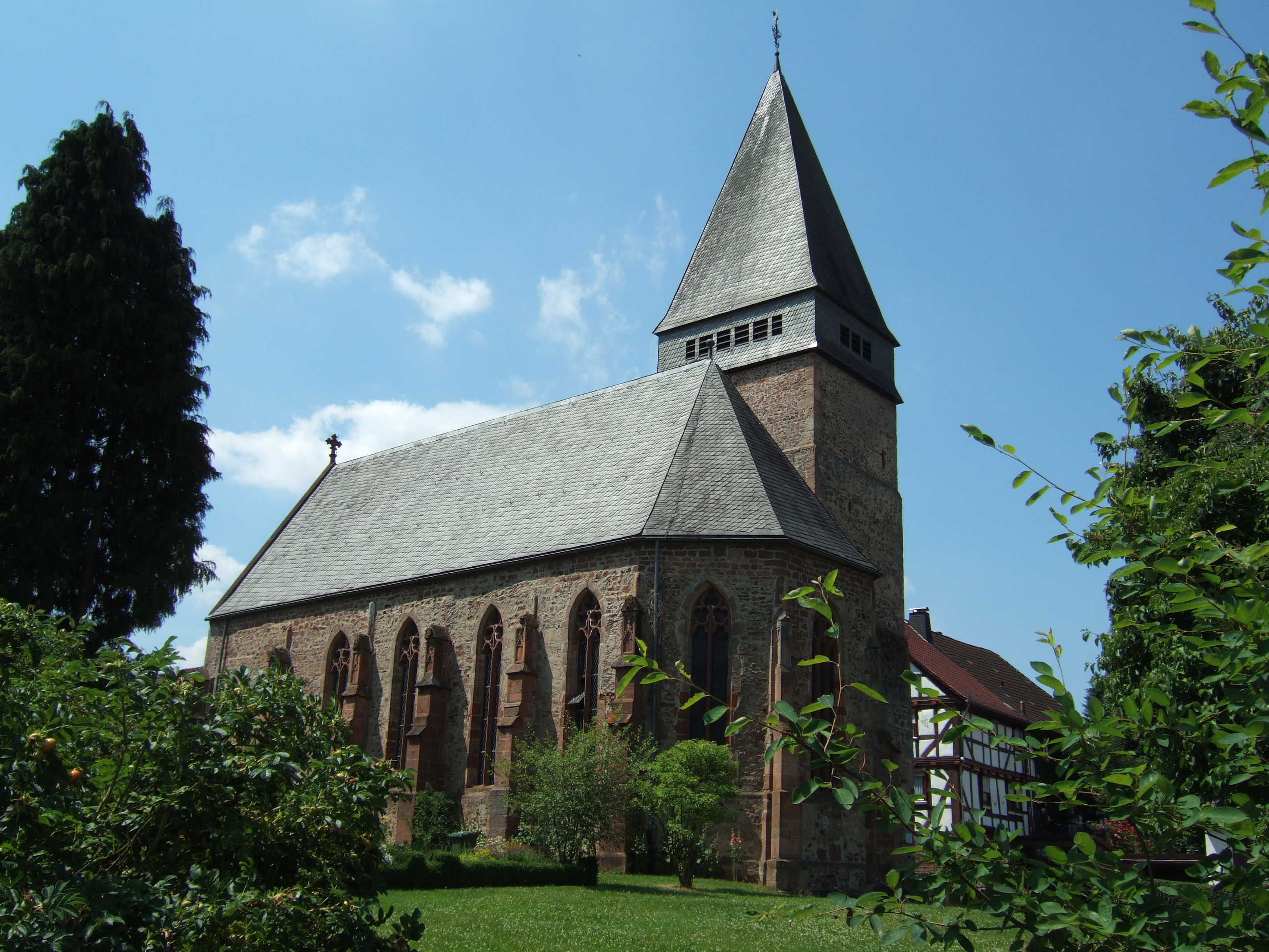 Protestant Church (former Church of the Order of St. John) in Burgwald-Wiesenfeld, Germany